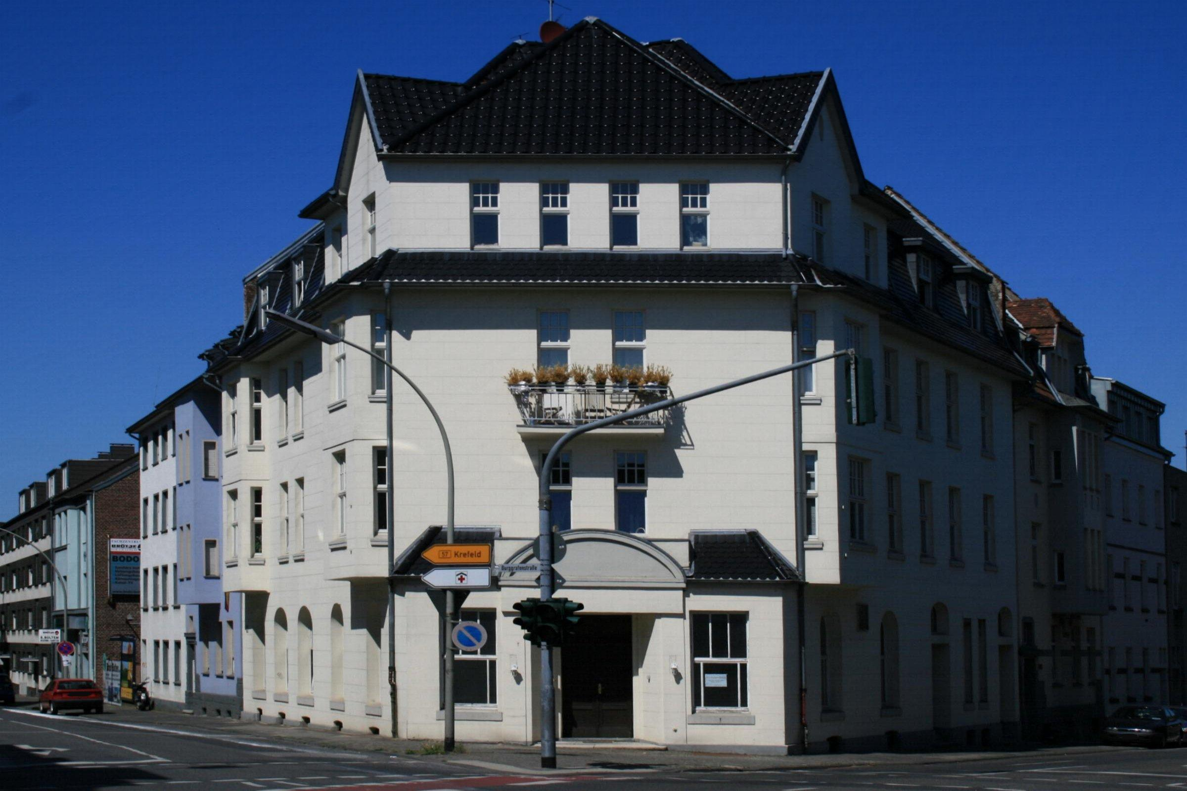 Cultural heritage monument No. A 003 in Mönchengladbach